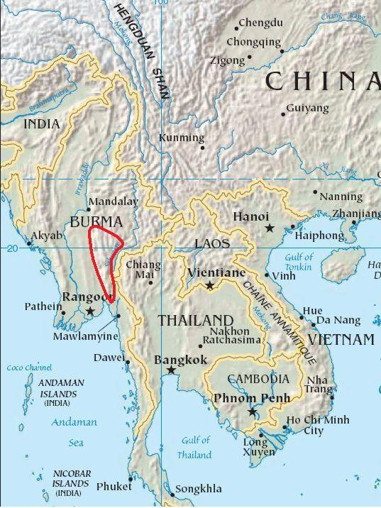 Location of the Karen Hills in Southeast Asia